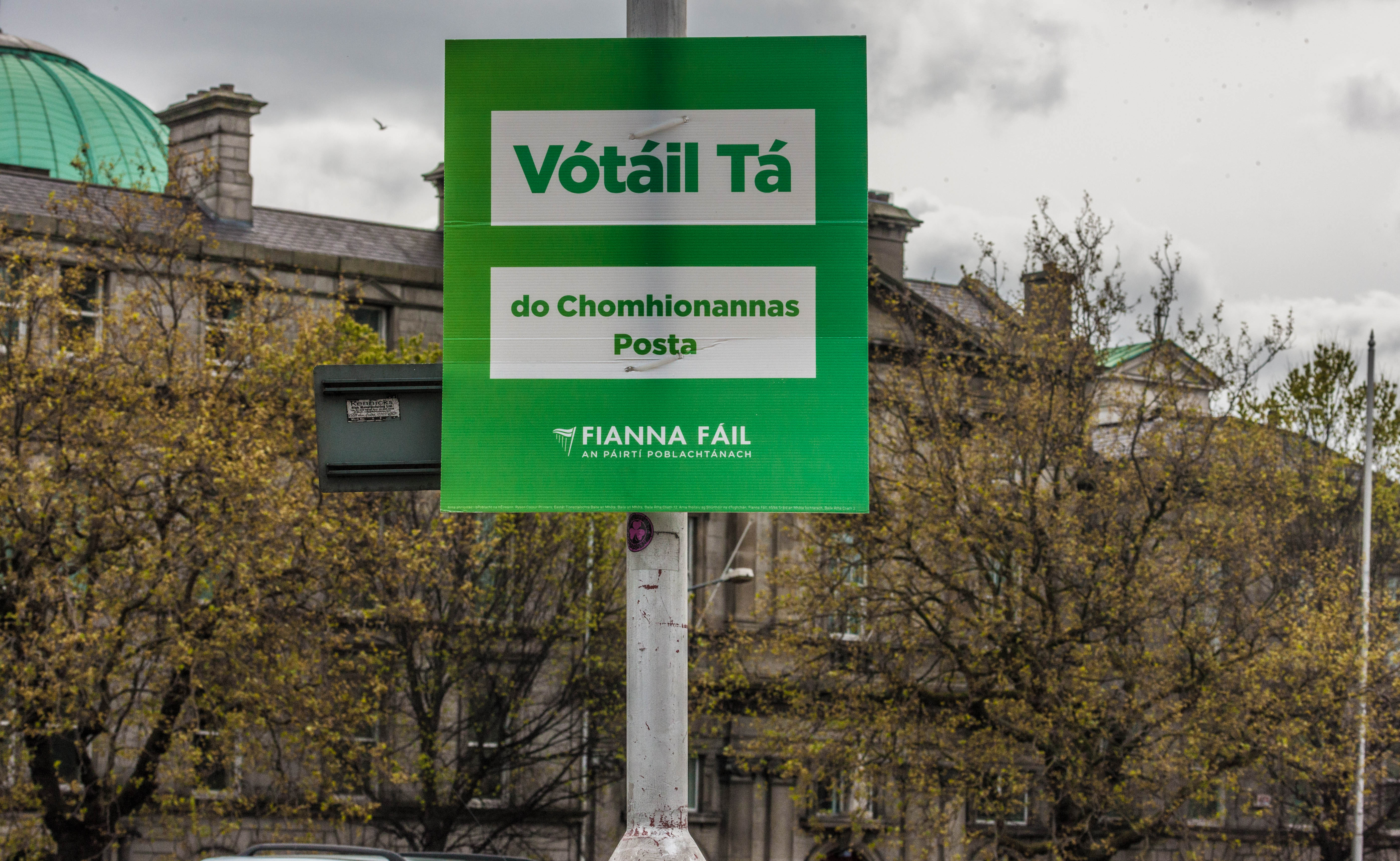 Katherine Zappone and Ann Louise Gilligan lost a case in the High Court in 2006 for the recognition by Ireland of their Canadian same-sex marriage. The Civil Partnership and Certain Rights and Obligations of Cohabitants Act 2010 instituted civil partnership in Irish law. After the 2011 general election, the Fine Gael and Labour parties formed a coalition government, whose programme included the establishment of a Constitutional Convention to examine potential changes on specified issues, including "Provision for the legalisation of same-sex marriage". The Convention considered the issue in May 2013 and voted to recommend that the state should be required, rather than merely permitted, to allow for same-sex marriage. Its report was formally submitted in July and the government formally responded in December, when Taoiseach Enda Kenny said a referendum would be held on 22 May, 2015.